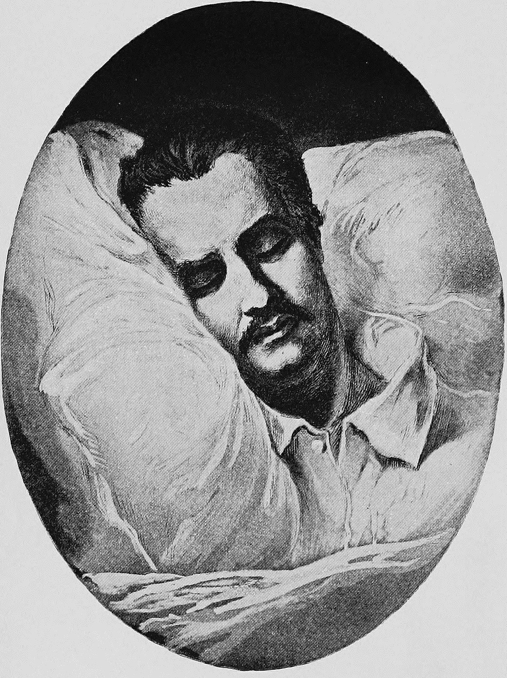 Portrait of Honoré de Balzac, taken one hour after his death